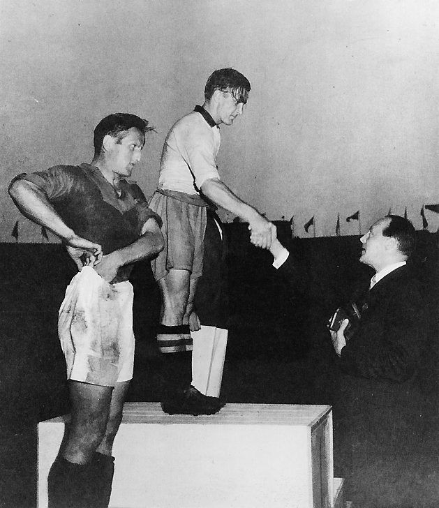 The Sweden team captain Birger "Bian" Rosengren on the podium receiving gold medal after Swedens victory in 1948 Olympic final against Yougoslavia